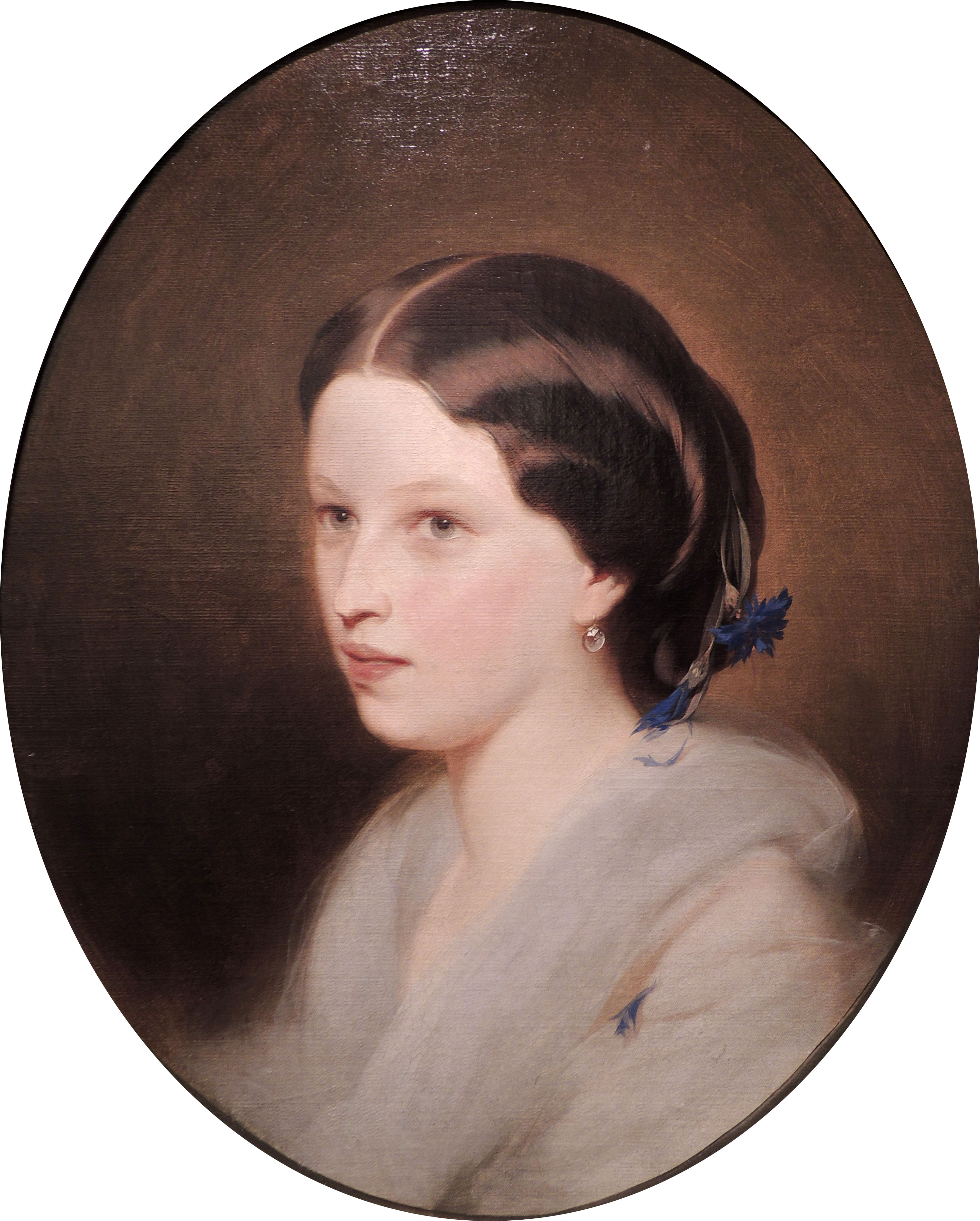 The potraiit of Maria Pushkina, daughter of Aleksander Pushkin